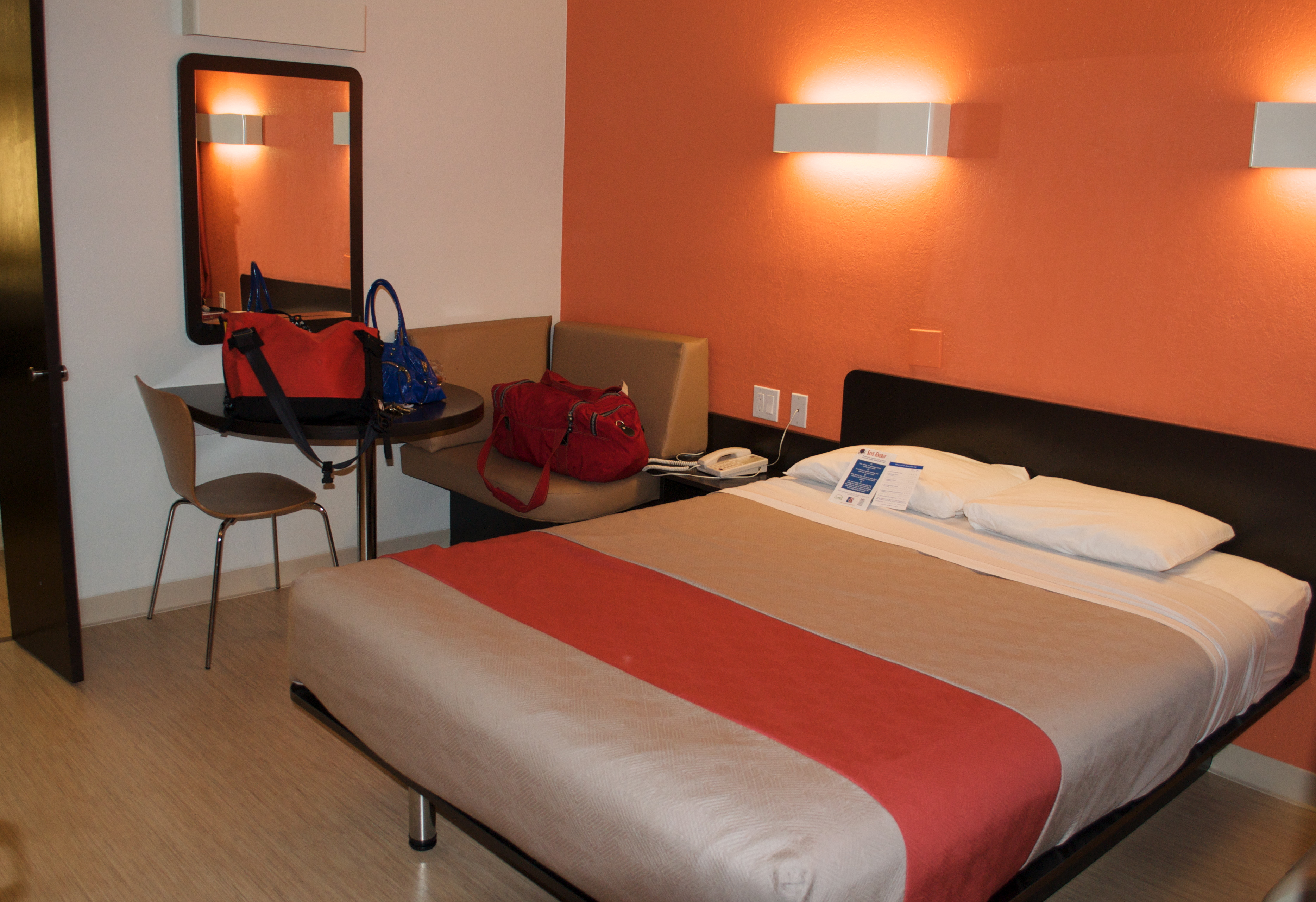 A photo of the interior of a Motel 6 room. According to the original description, this Motel 6 is located in Santa Barbara, California where the chain first appeared and the rooms underwent a redesign by the British firm Priestman Goode around May 2009. (For more information about the redesign, see "Cheap chic: Motel 6 steps up its style" by Helen Anders in , updated January 29, 2010. Also see "Motel 6's Light Is on in a New Kind of Room" by Hilary Howard in The New York Times, March 30, 2008.)